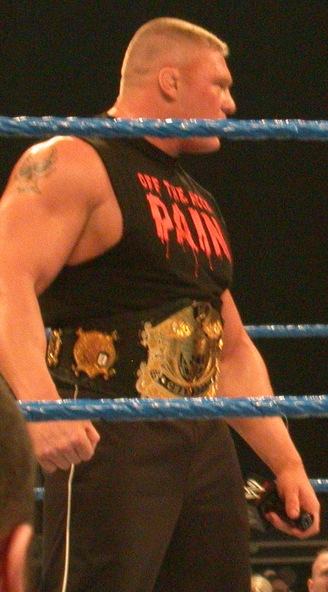 Brock Lesnar at a SmackDown! taping in Tacoma, WA on February 10, 2004.